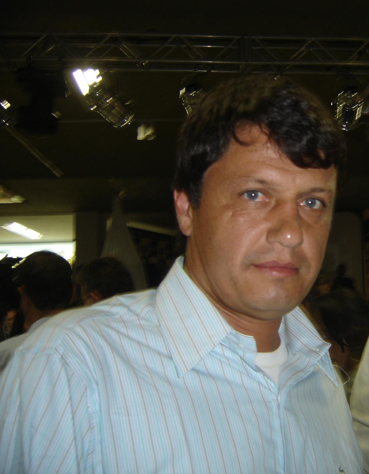 Football coach and former football brazilian player Adilson Batista